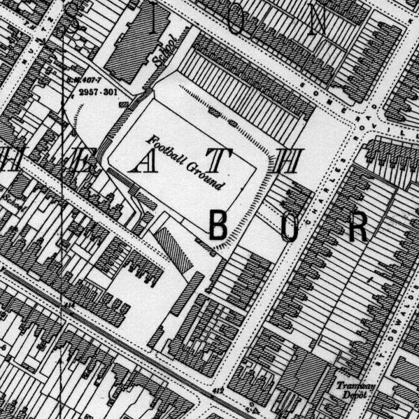 An Ordnance Survey map from 1904 showing Muntz Street, the home ground of Small Heath F.C. (now called Birmingham City F.C.), which was demolished in 1907